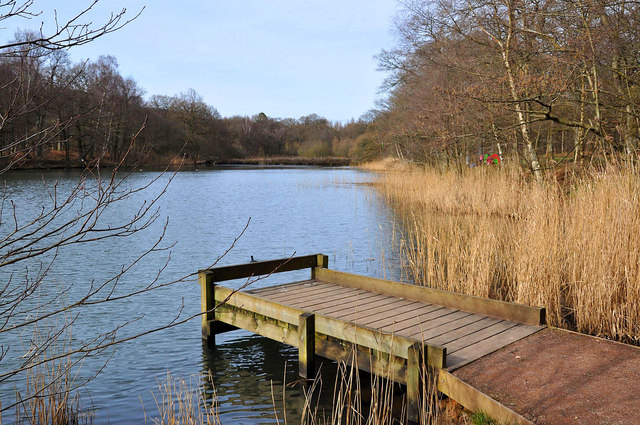 Cannop Ponds Almost exactly the same picture as 1123972 but in warmer weather.